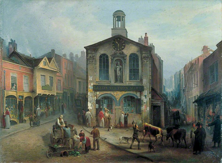 Rhodes, Joseph; The Old Moot Hall, Leeds; Leeds Museums and Galleries